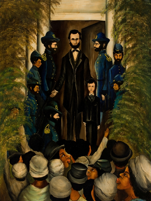 The painting depicts Lincoln talking to freed slaves.